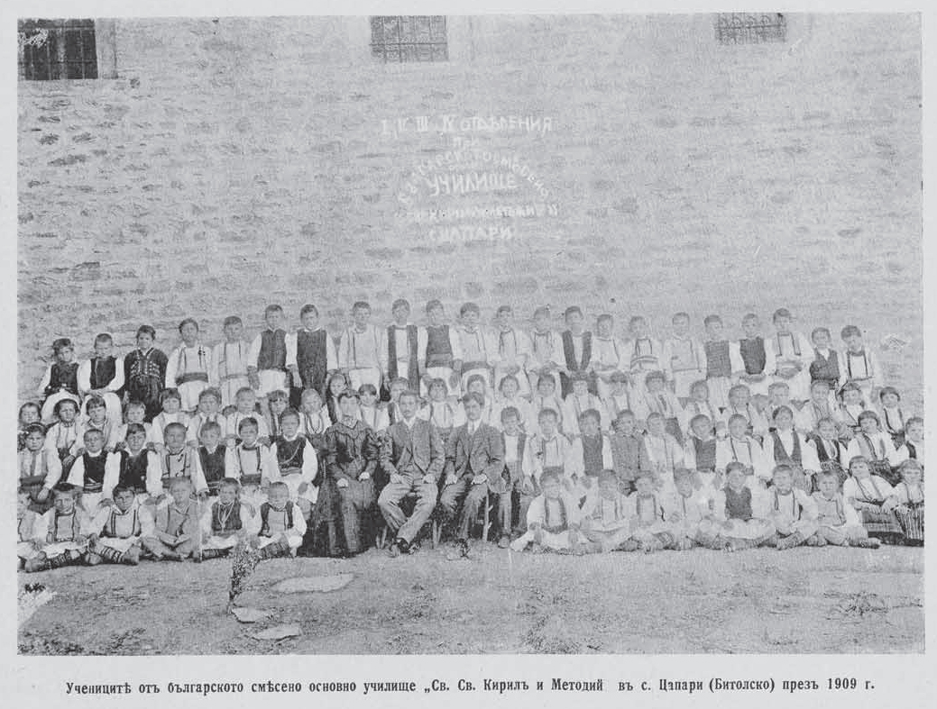 Bulgarian school in Tsapari